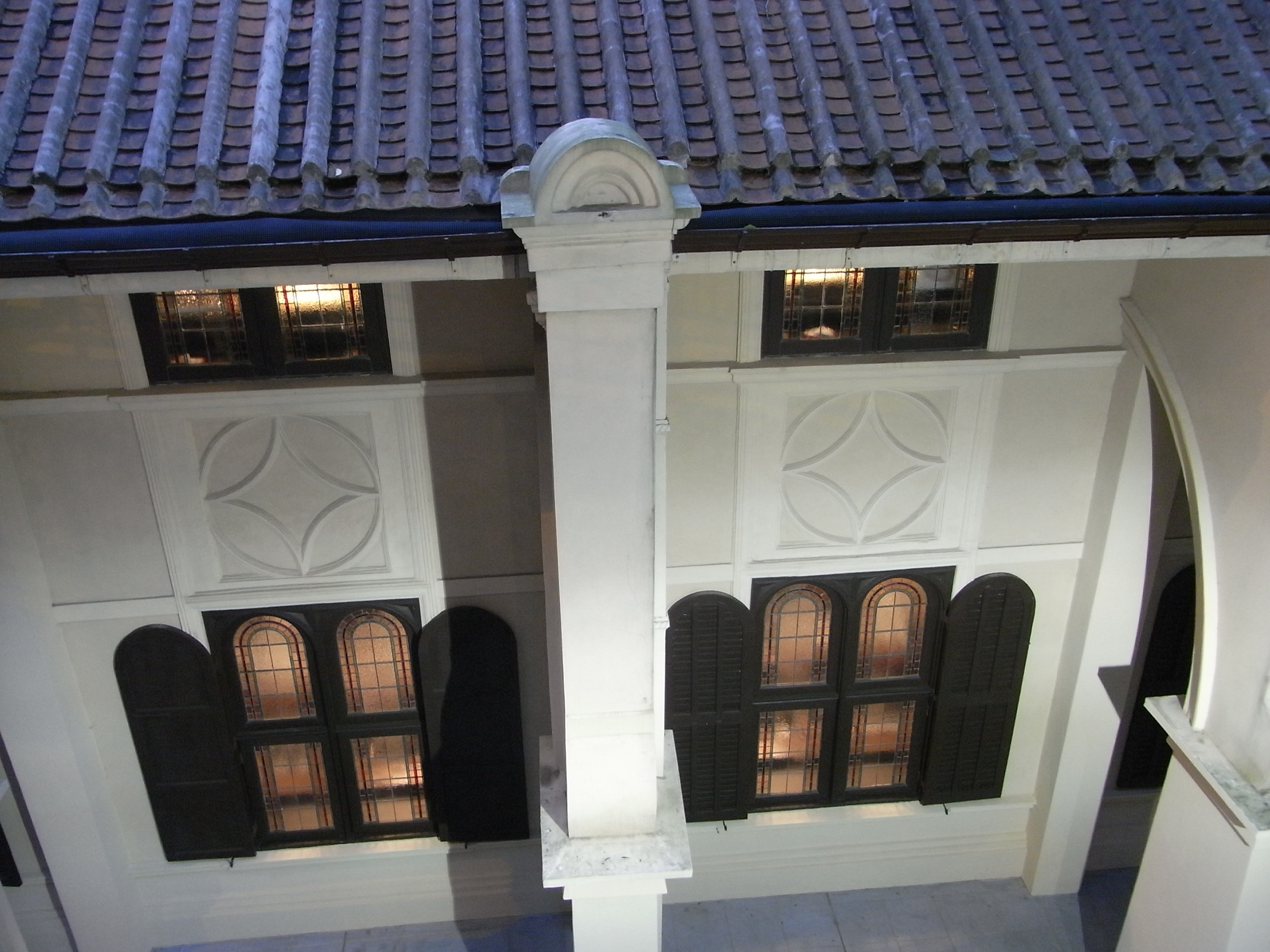 香港島半山區 黃昏